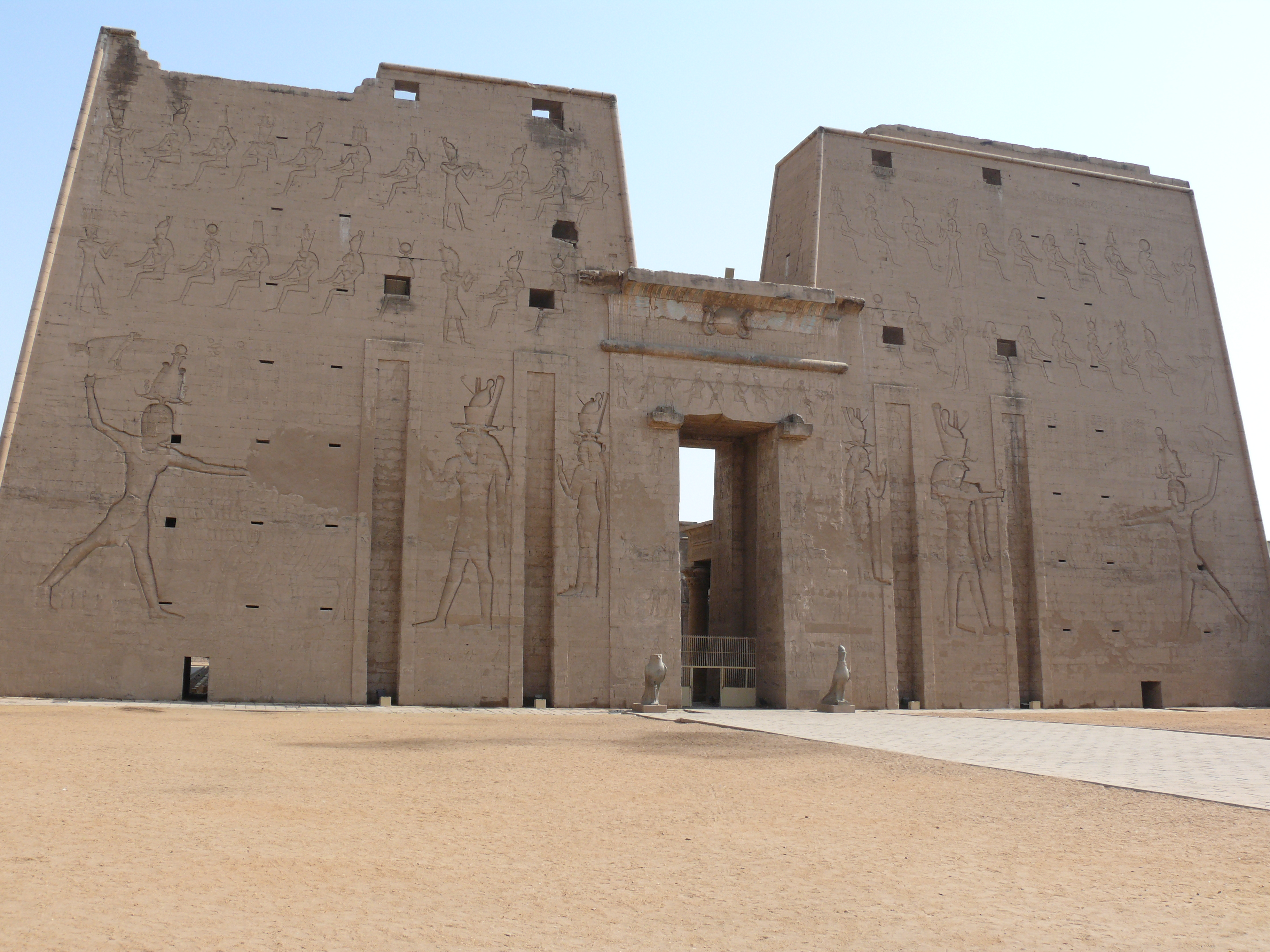 The temple of Horus at Edfu.